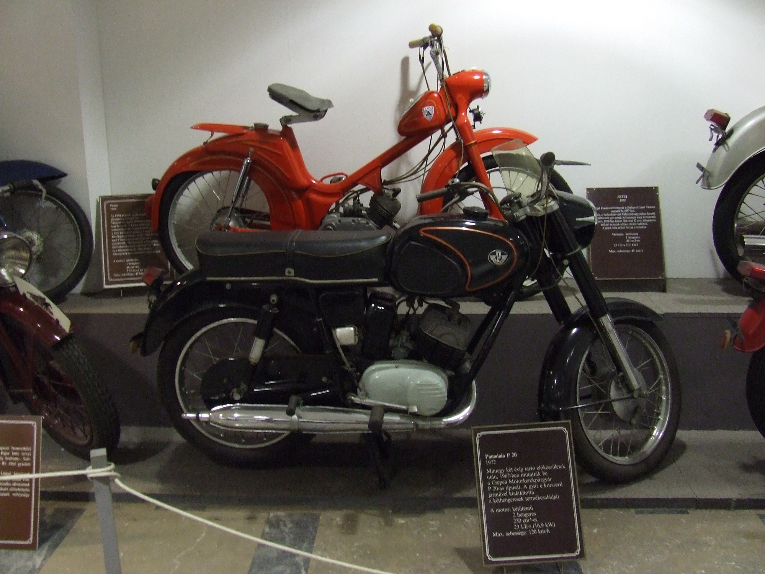 Budapest, Transport Museum 2015